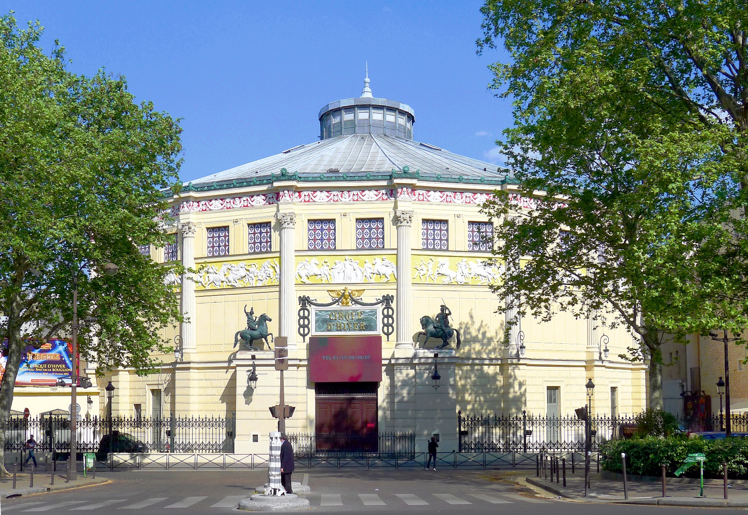 Cirque d'hiver - Paris